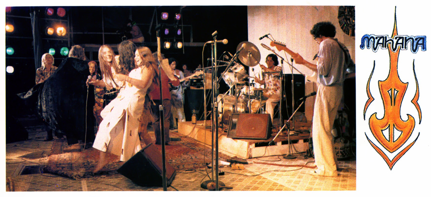 These photoes were taken by the official Nambassa photographer at the 1978 Nambassa Winter Show in New Zealand. Photographer Paul Gilbert. Photo courtesy of "Nambassa a New Direction." Uploaded by Mombas 08:58, 3 May 2007 (UTC) Summary Terms of Use: 1/ All users of this image are required to attribute this work to "Nambassa Trust and Peter Terry" and the URL: " " is to accompany all use. 2/ Attribution. You must attribute the work in the manner specified by the author or licensor. 3/ For any reuse or distribution, you must make clear to others the license terms of this work. Statement by Nambassa Trust and Peter Terry